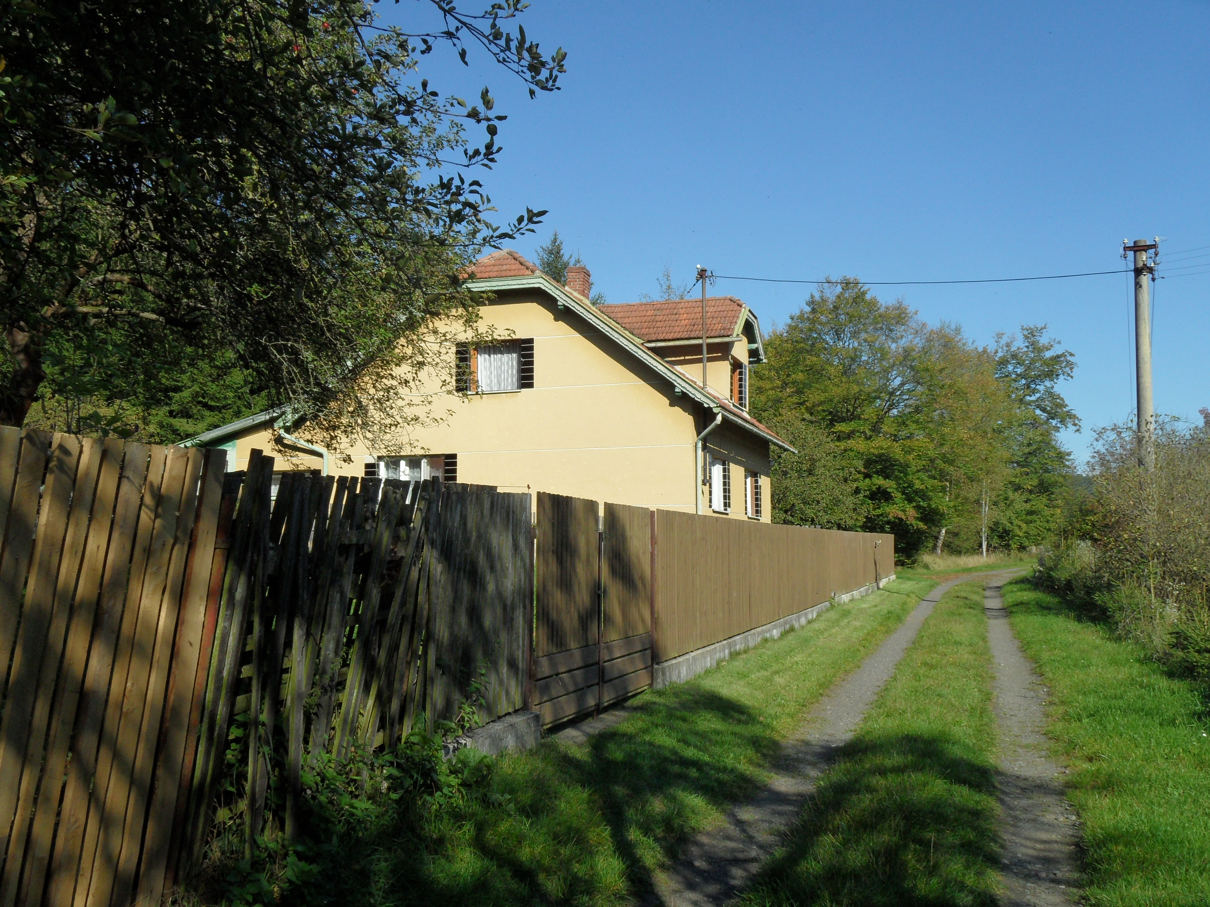 Hrádek (Horka_II) C. House Near Path (View from South), Kutná Hora District, the Czech Republic.